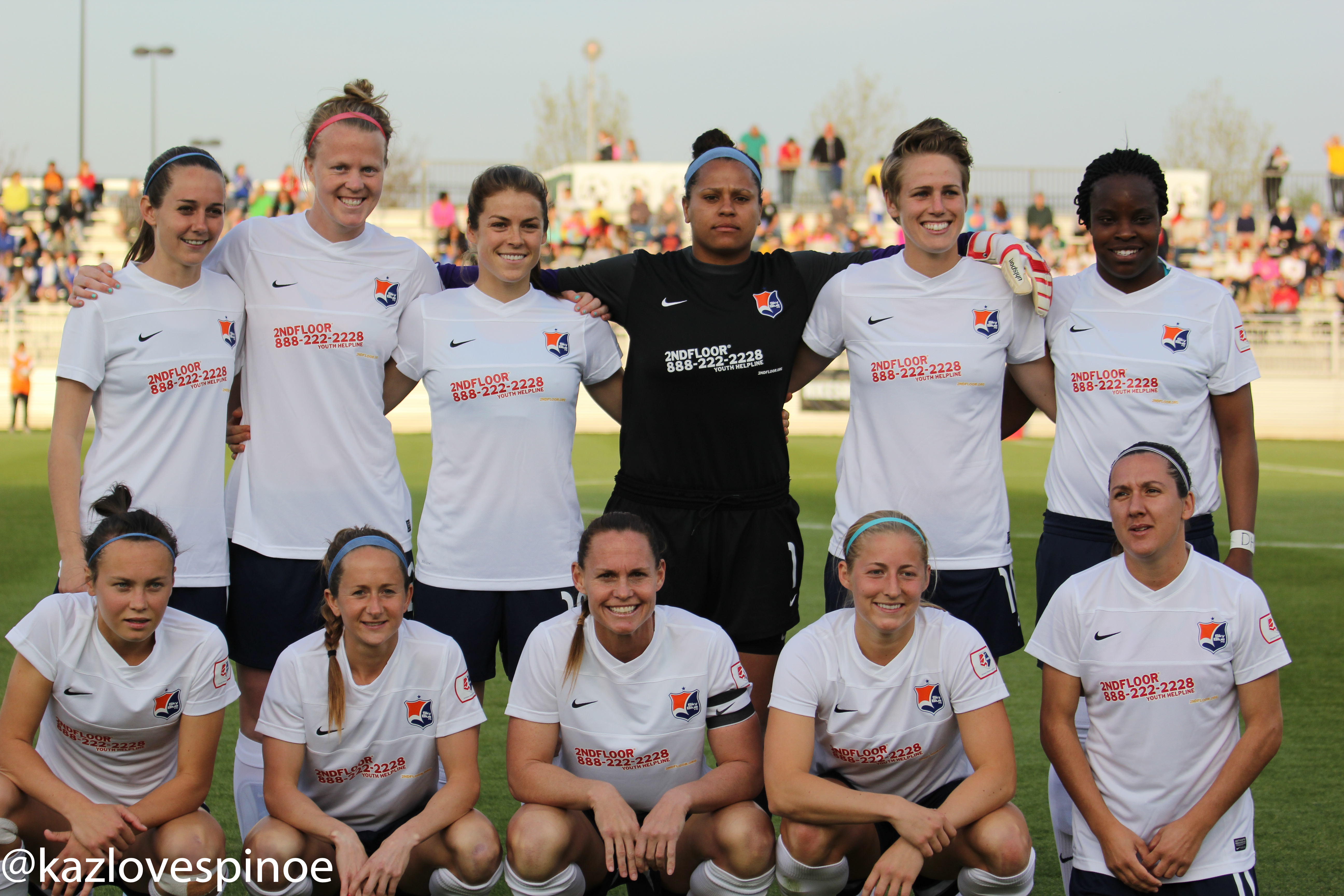 Sky Blue - Starting XI